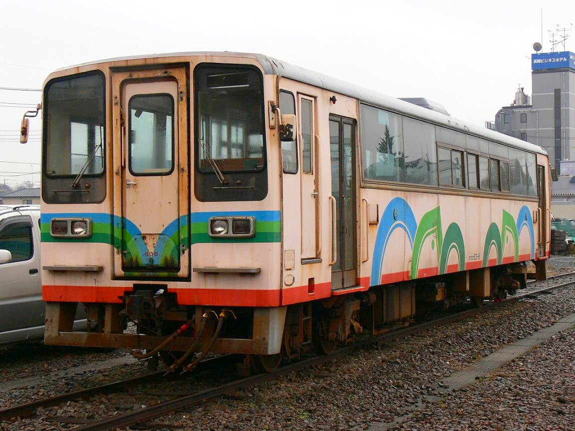 Moka Railway Type Moka63 Diesel railcar.